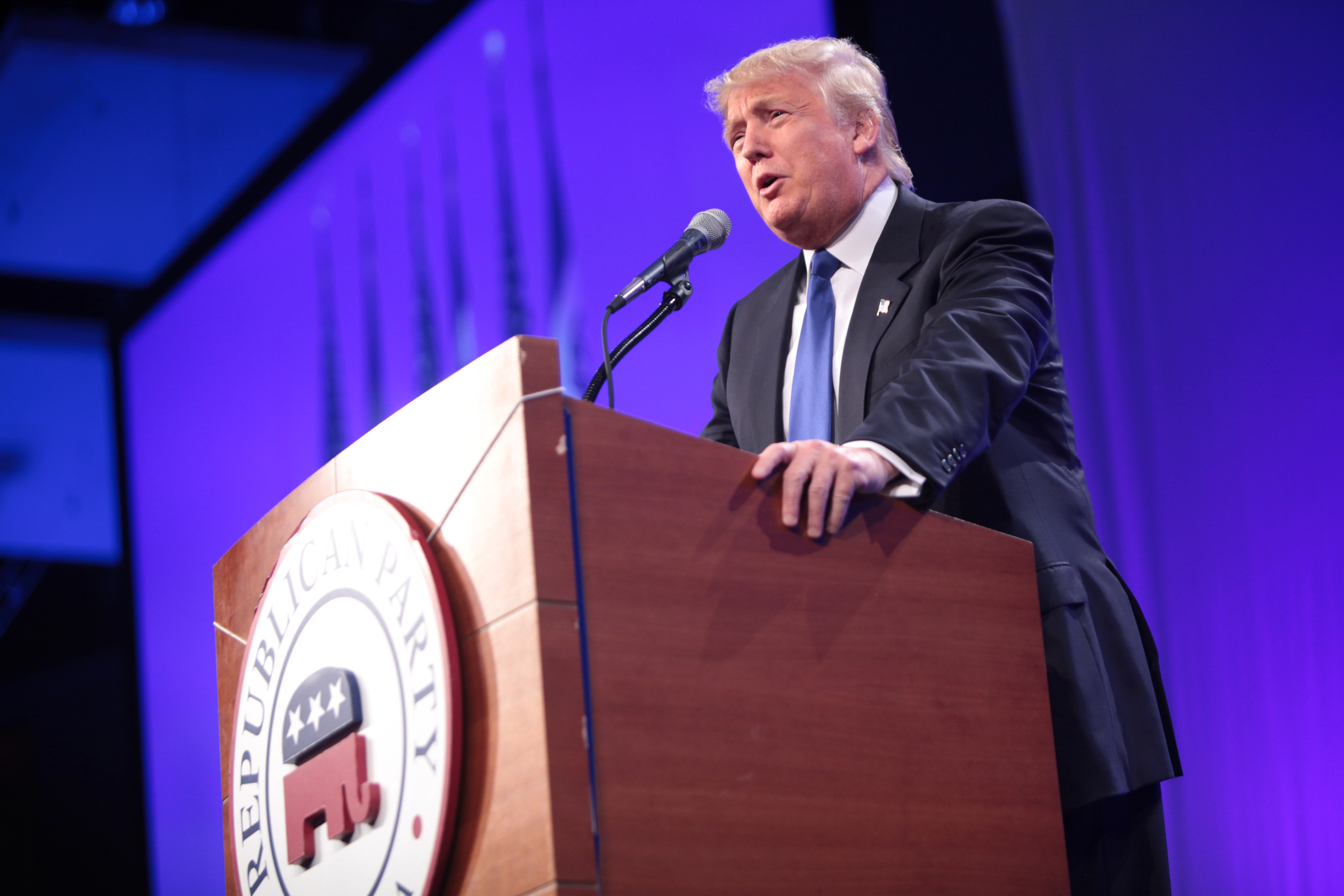 Donald Trump speaking at the Iowa Republican Party's 2015 Lincoln Dinner at the Iowa Events Center in Des Moines, Iowa.